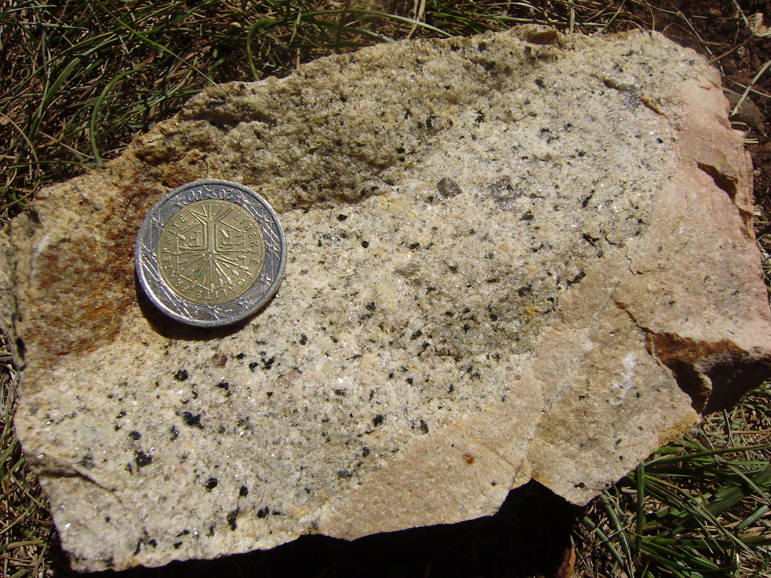 Intrusive microgranodiorite facies of the light type with a rose-coloured aplite dyke on lower right. Piégut-Pluviers granodiorite, northwestern Massif Central, France.